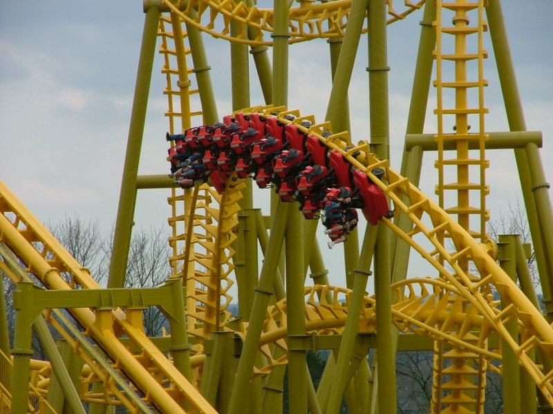 This photo was taken by Brian Wolters in March, 2004. This photo was taken by Brian Wolters in March, 2004.